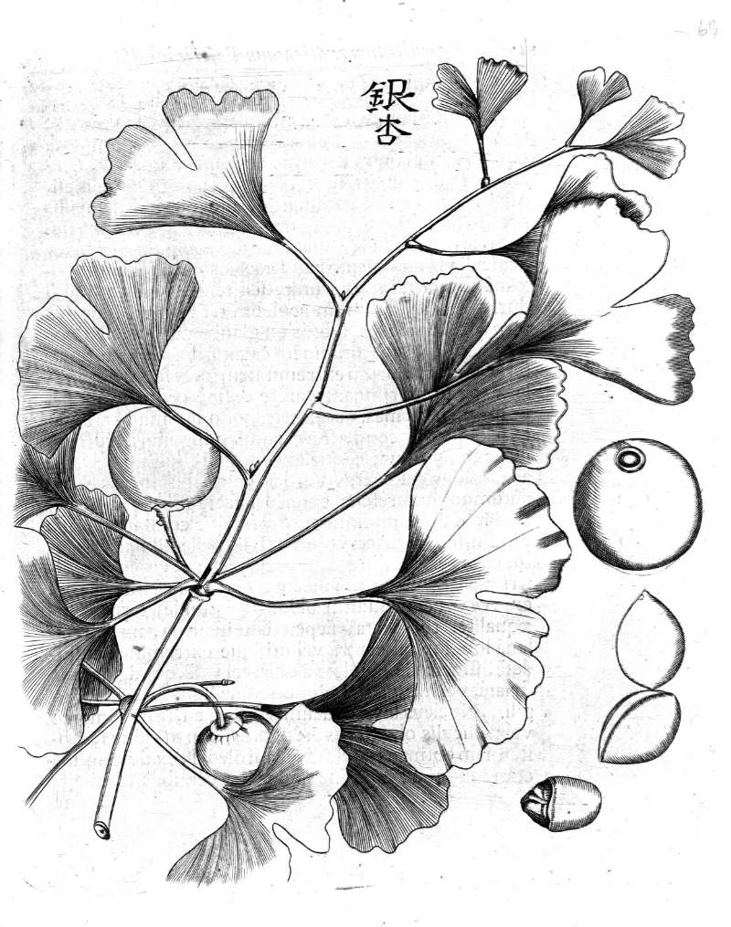 Ginkgo biloba In: Amoenitatum Exoticarum S. 813